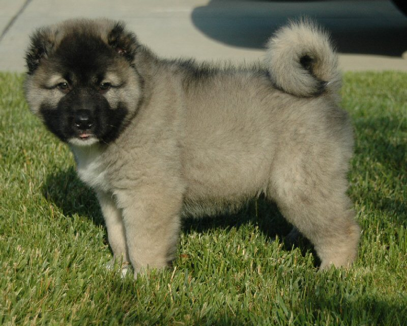 Caucasian Ovcharka puppy Remus Mikola in